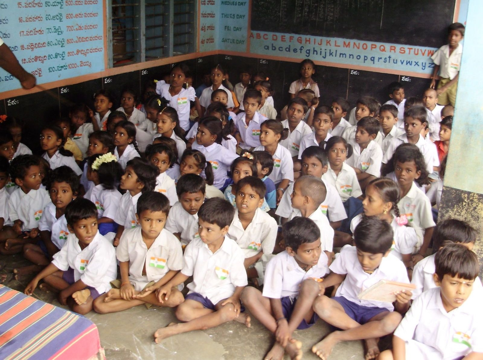 Elementary School in Chittoor,AP,India. This school is adopted by Aashritha under the 'Paathshaala' project. The school currently educates 70 students.